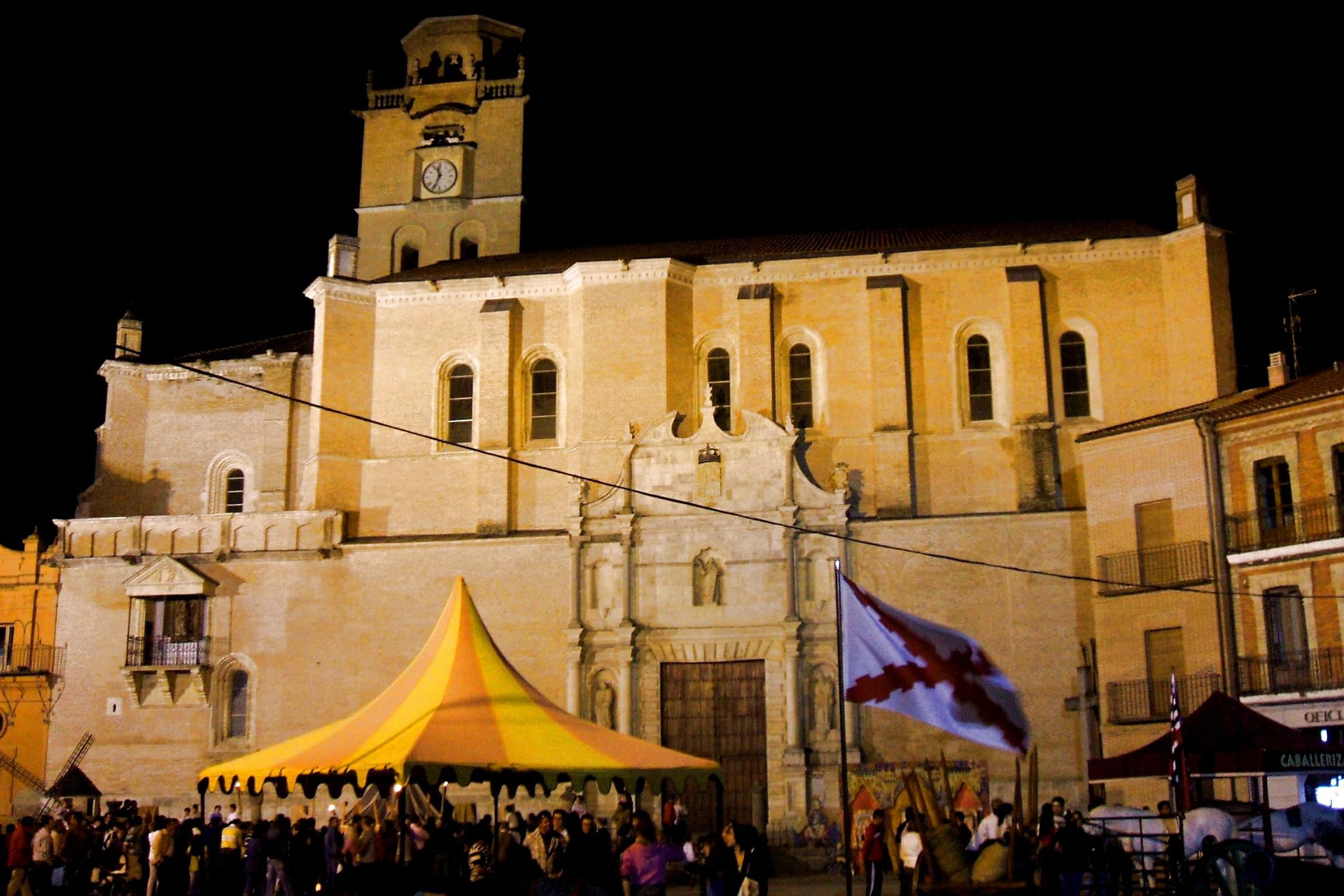 Colegiata de San Antolín, en Medina del Campo (Valladolid, Castilla y León, España)